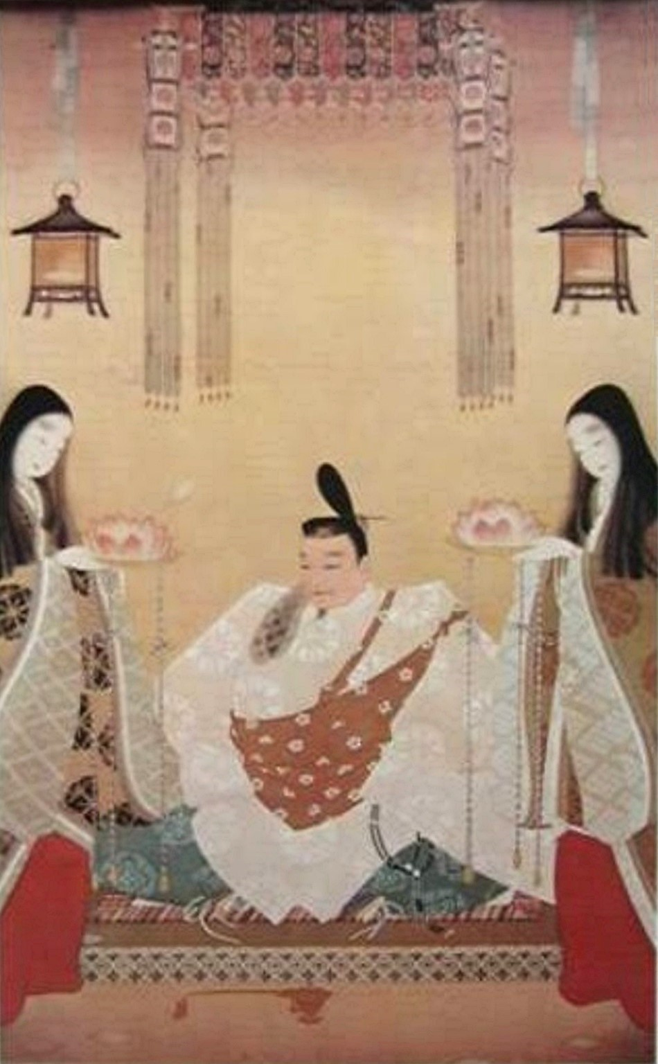 Picture called: Minister of Laterns